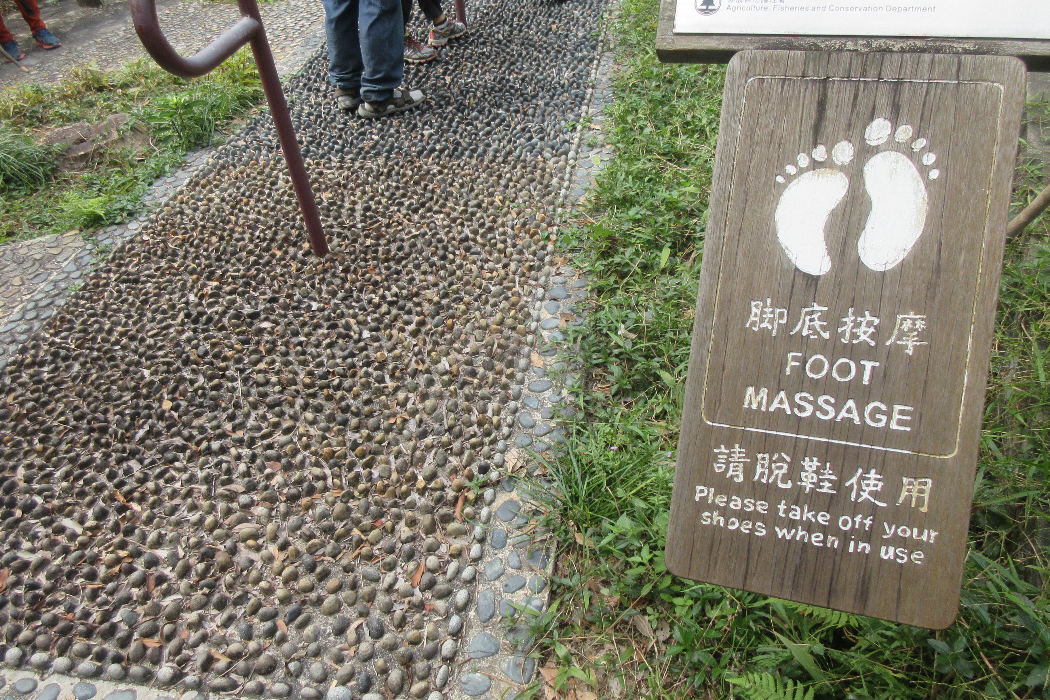 HK Hiking December 2018 Trail